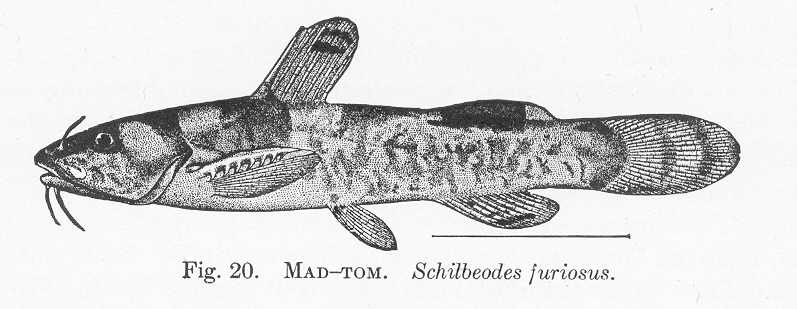 Mad-Tom. Schilbeodes furiosus Subject: Schilbeid catfishes Tag: Fish